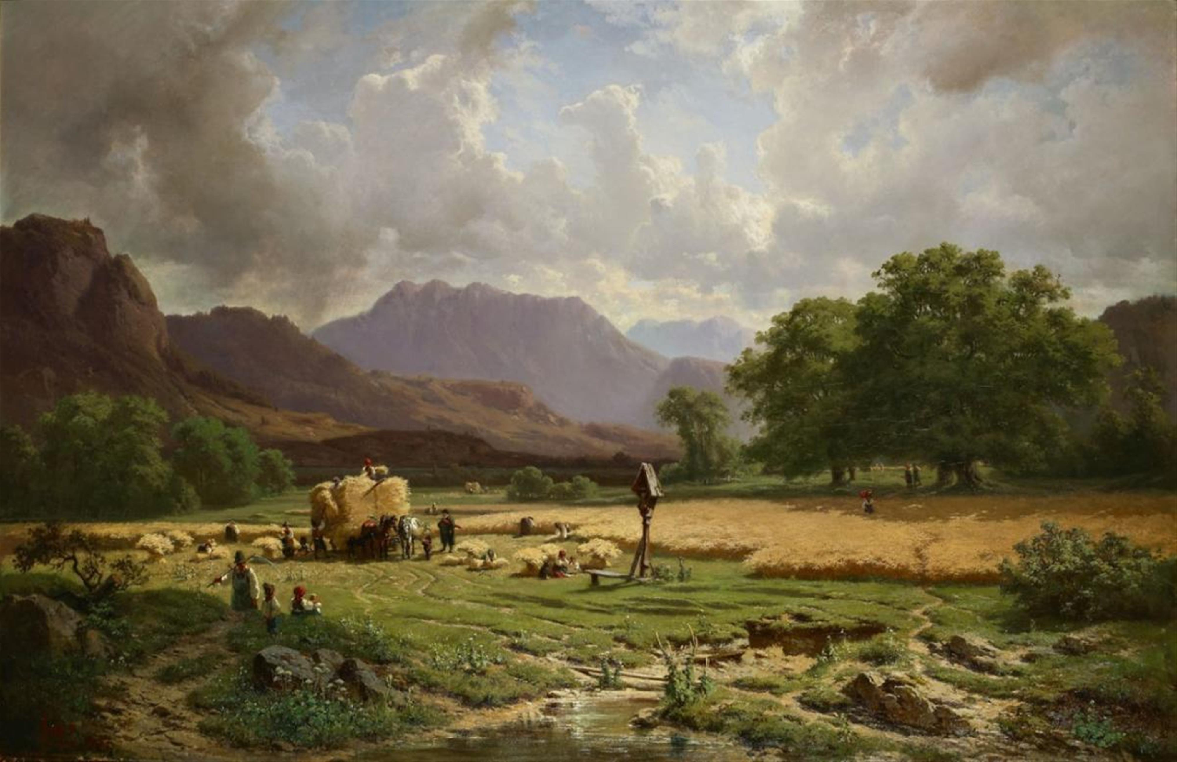 "Summer Day" (1857) "Grain Harvest in the Mountains", according to other sources.